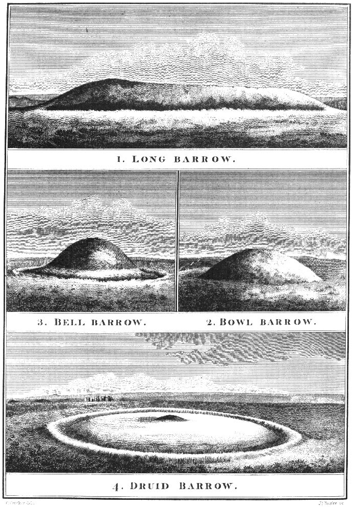 Engraving of barrow types, from Colt Hoare's introduction to "The Ancient History of Wiltshire".